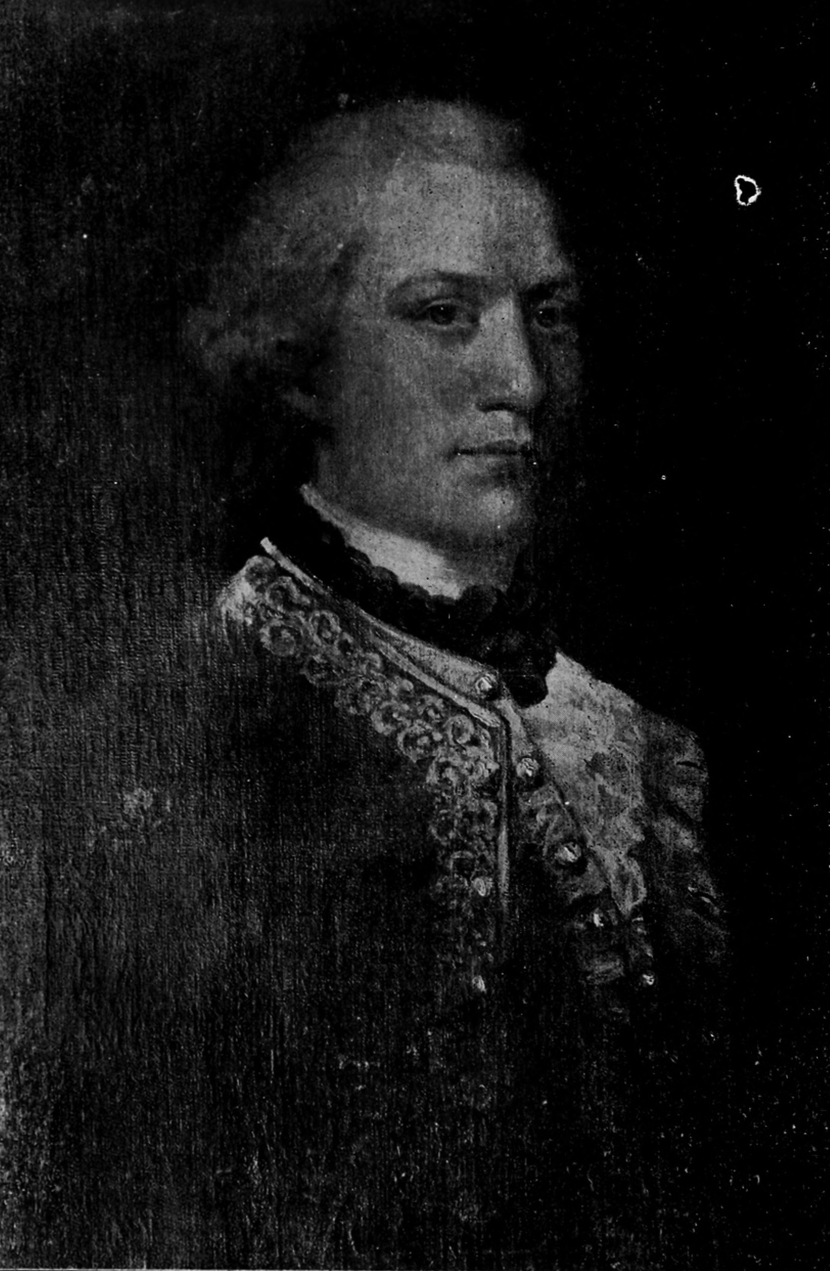 An image of a portrait of Sir Donald Macdonald of Sleat, 4th Baronet (died 1718). Today he is considered to be a chief of Clan Macdonald of Sleat. The image appears to be a painting.